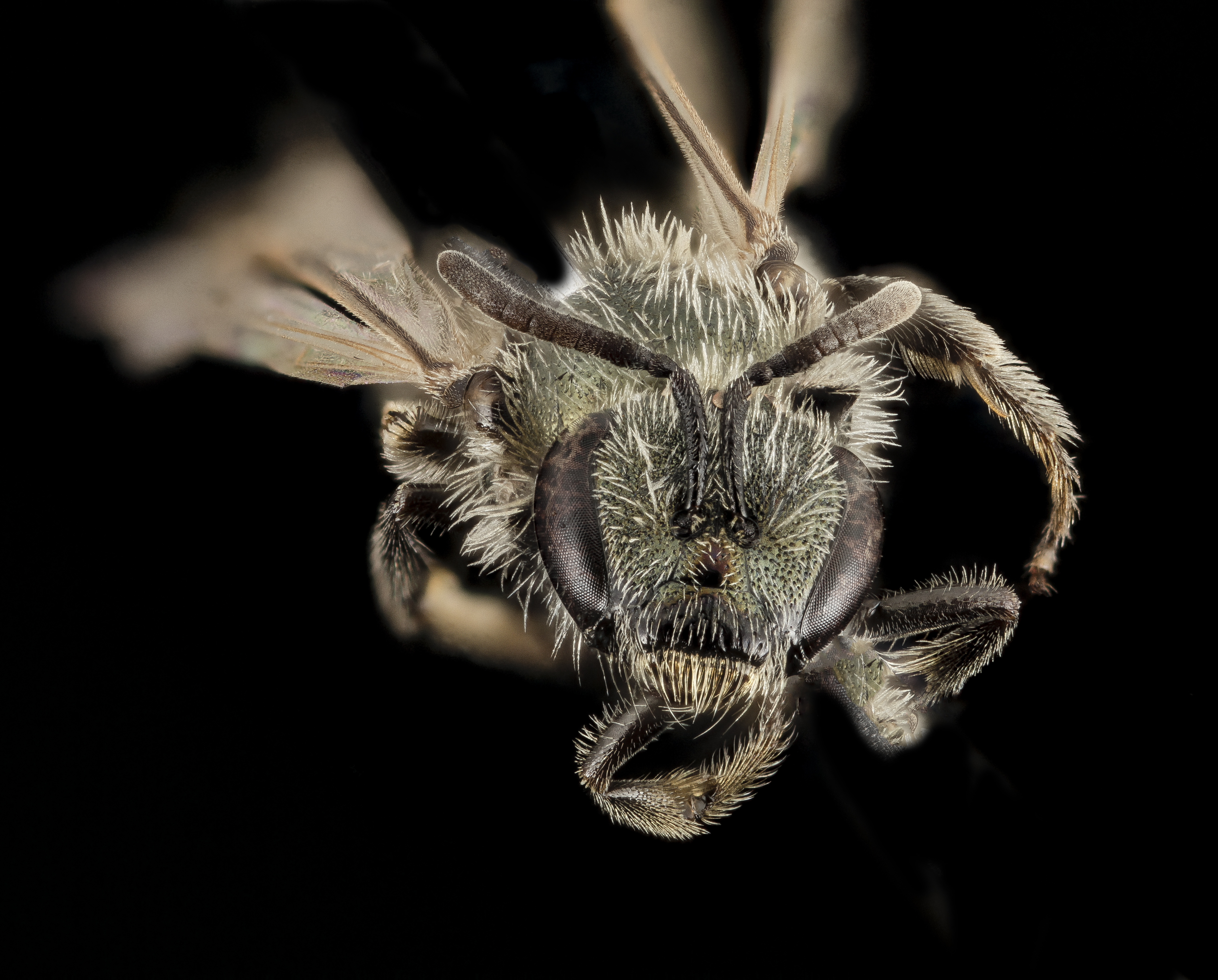 As we to document the many species of bees that exist in North America… And worldwide, we realize that quite a few of them look like the species, Lasioglossum abundipuntum. The reason is there are many different species of Lasioglossum and they all look about the same, with difficult characters that vary in subtle ways to torment those who have to identify them. The specimen comes from Fossil Butte in Wyoming national Monument likely has a lot of fossils, perhaps more importantly has lots bees. Photograph by Dejen Mengis. 03:02, 11 April 2016 (UTC)03:02, 11 April 2016 (UTC) 0 03:02, 11 April 2016 (UTC)03:02, 11 April 2016 (UTC) All photographs are public domain, feel free to download and use as you wish. Photography Information: Canon Mark II 5D, Zerene Stacker, Stackshot Sled, 65mm Canon MP-E 1-5X macro lens, Twin Macro Flash in Styrofoam Cooler, F5.0, ISO 100, Shutter Speed 200 Beauty is truth, truth beauty - that is all Ye know on earth and all ye need to know " Ode on a Grecian Urn" John Keats You can also follow us on Instagram account USGSBIML Want some Useful Links to the Techniques We Use? Well now here you go Citizen: Art Photo Book: Bees: An Up-Close Look at Pollinators Around the World Basic USGSBIML set up: USGSBIML Photoshopping Technique: Note that we now have added using the burn tool at 50% opacity set to shadows to clean up the halos that bleed into the black background from "hot" color sections of the picture. PDF of Basic USGSBIML Photography Set Up: ftp://ftpext.usgs.gov/pub/er/md/laurel/Droege/How%20to%20Take%20MacroPhotographs%20of%20Insects%20BIML%20Lab2.pdf Google Hangout Demonstration of Techniques: or Excellent Technical Form on Stacking: Contact information: Sam Droege 301 497 5840